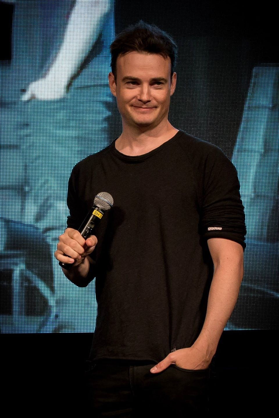 Robin Dunne at Oz Comic Con Adelaide, Australia April 2014